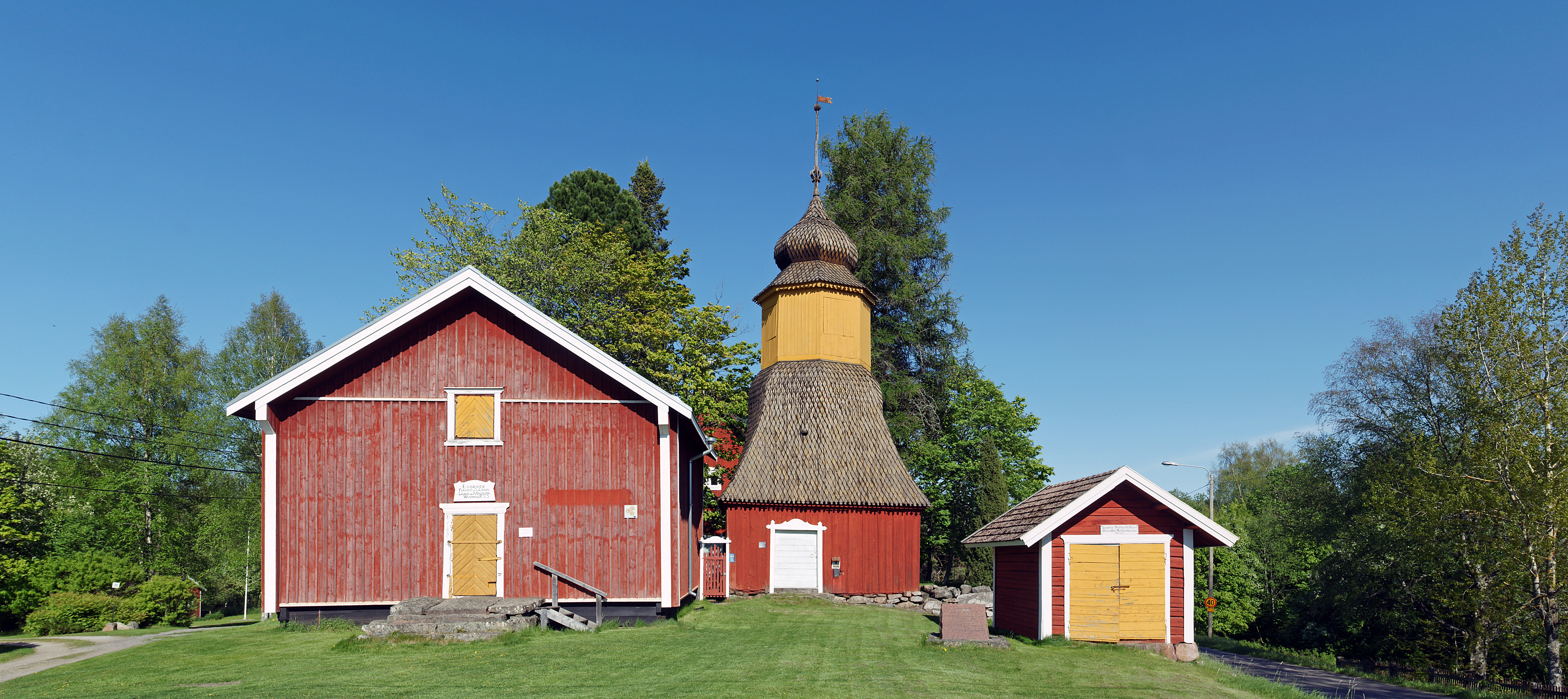 Bell tower of Irjanne Church in Finland. Completed in 1758.